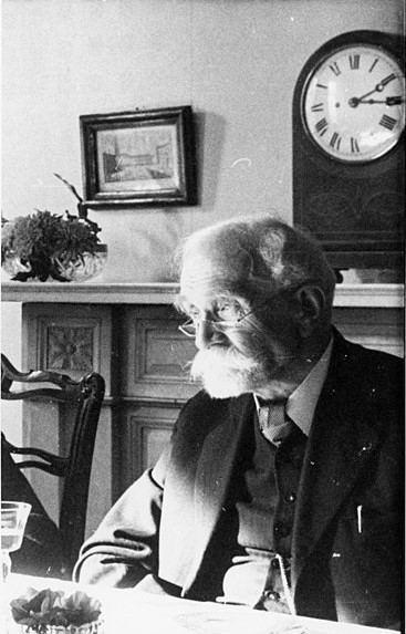 Prof. Stanisław Kościałkowski